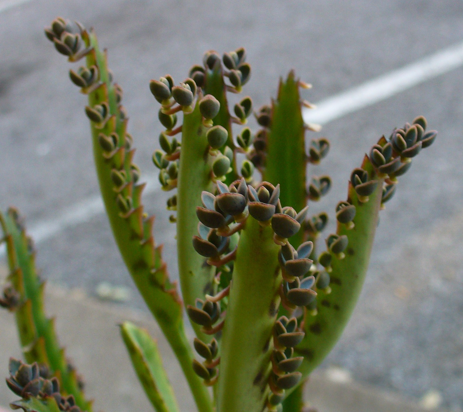 Close-up of kalanchoe daigremontiana